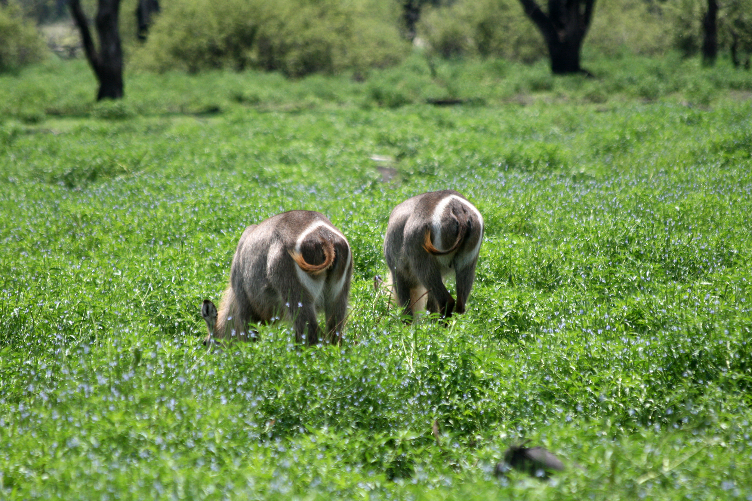 Female ellipsen waterbucks in Selous Game Reserve